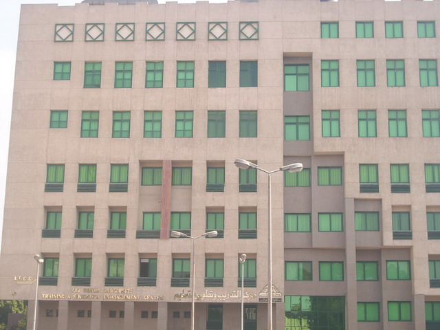 Ain Shams Faculty of medicine, Training & eductional enhancemant unit building